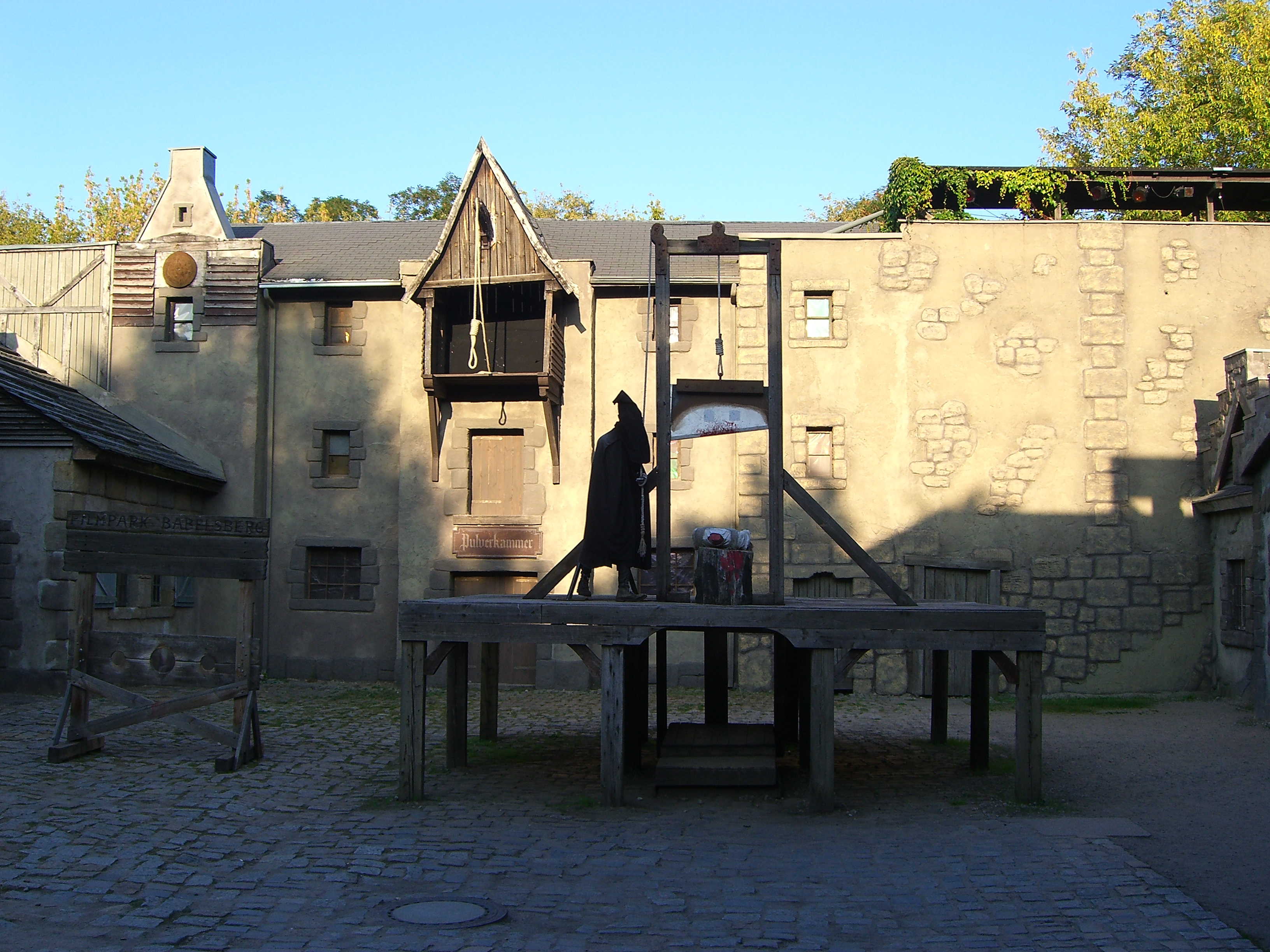 Film set of a mediaevally town in "Filmpark Babelsberg", Potsdam-Babelsberg.